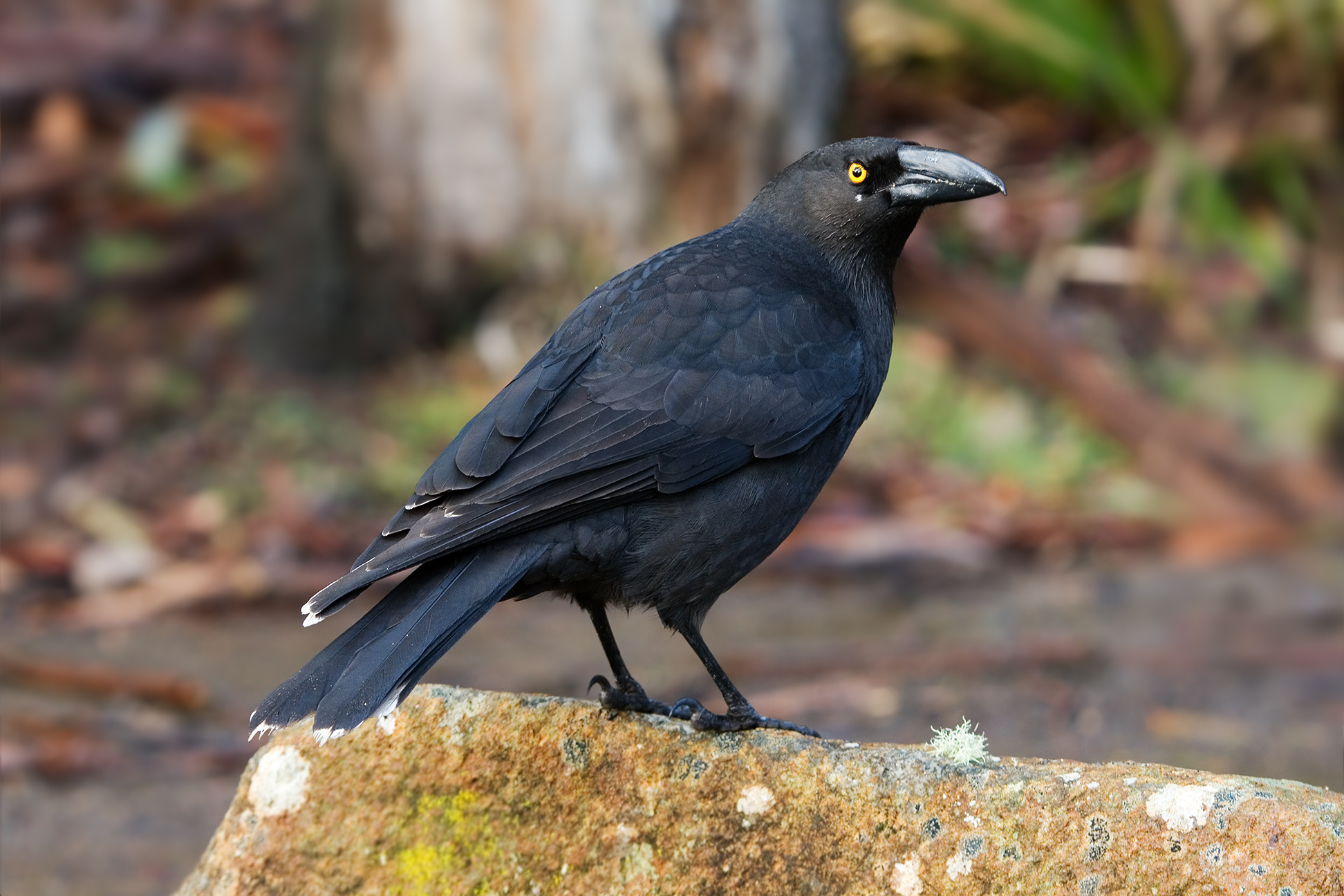 Black Currawong (Strepera fuliginosa)